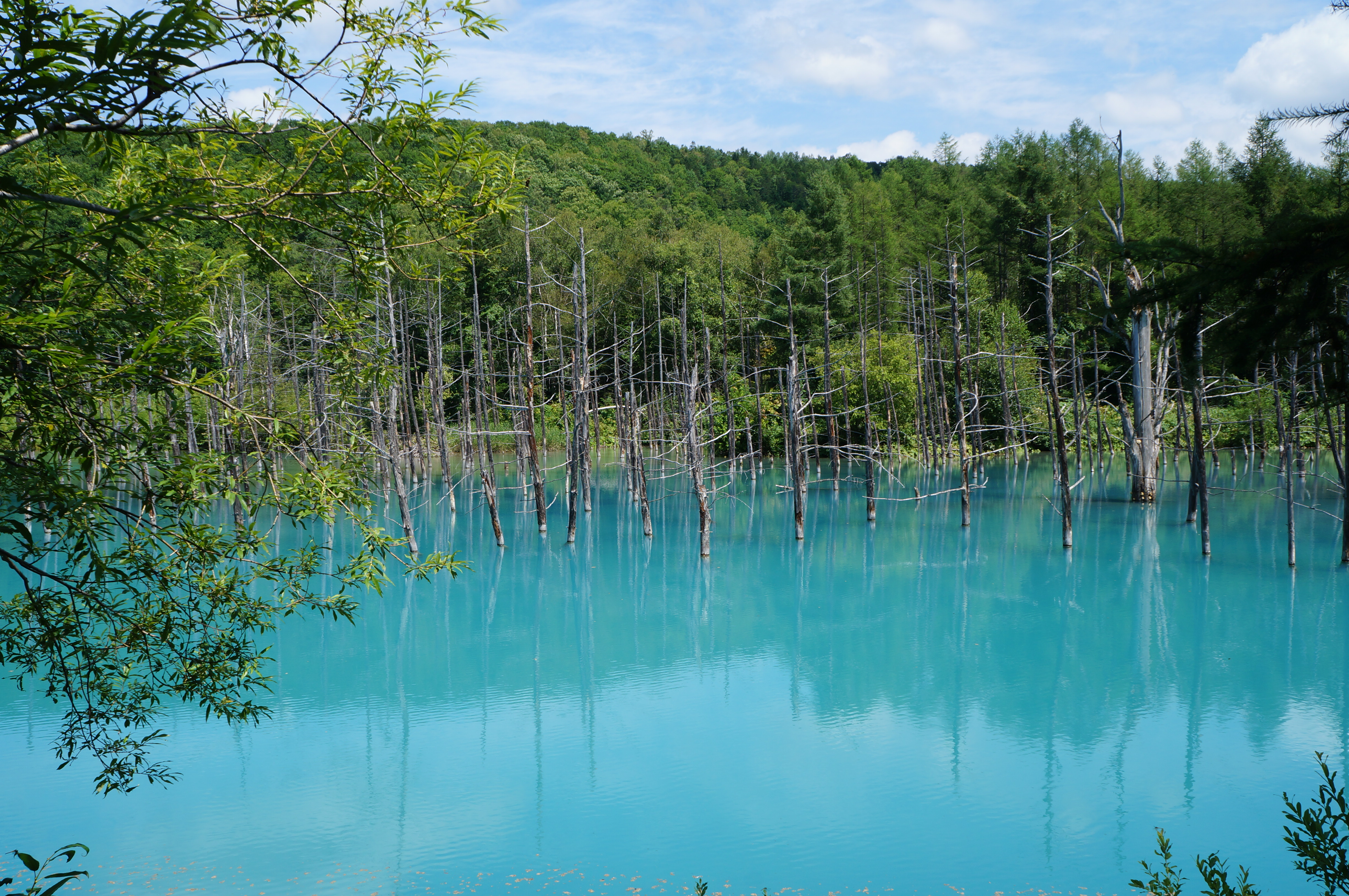 Shirogane, Biei, Kamikawa District, Hokkaido Prefecture 071-0235, Japan